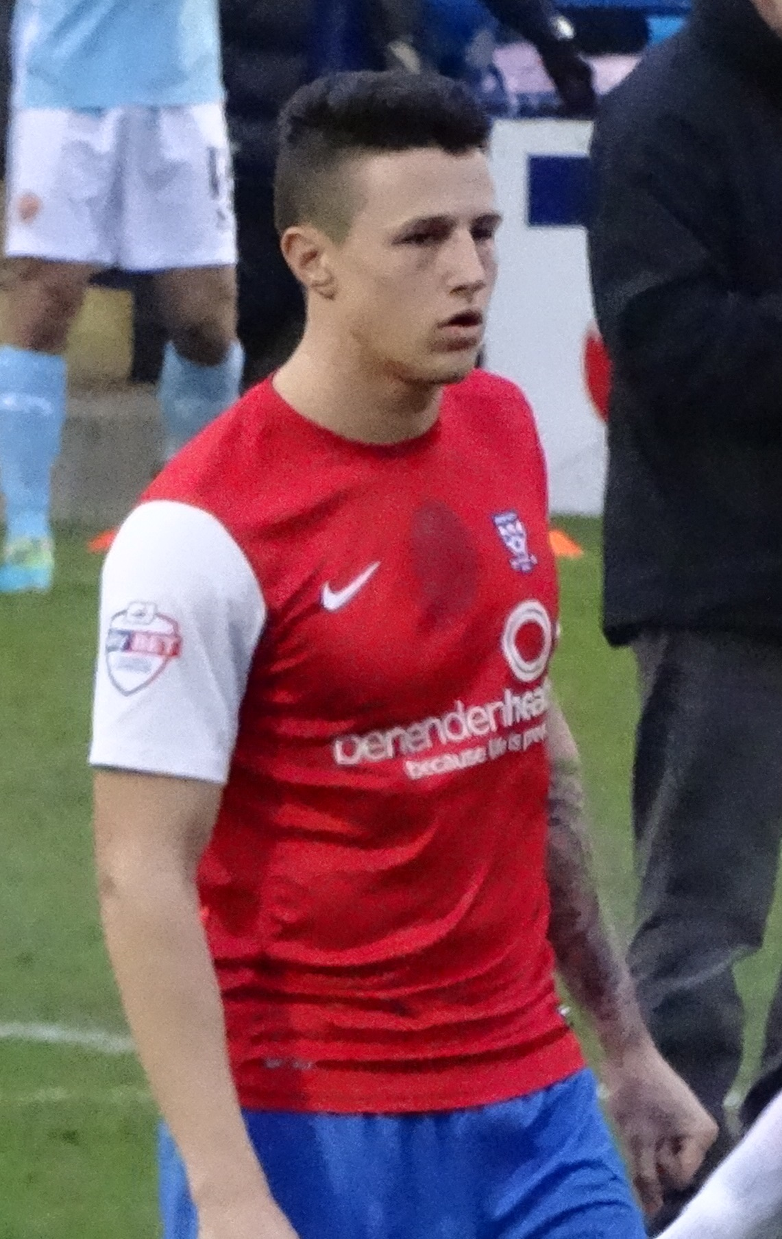 Wes Fletcher.